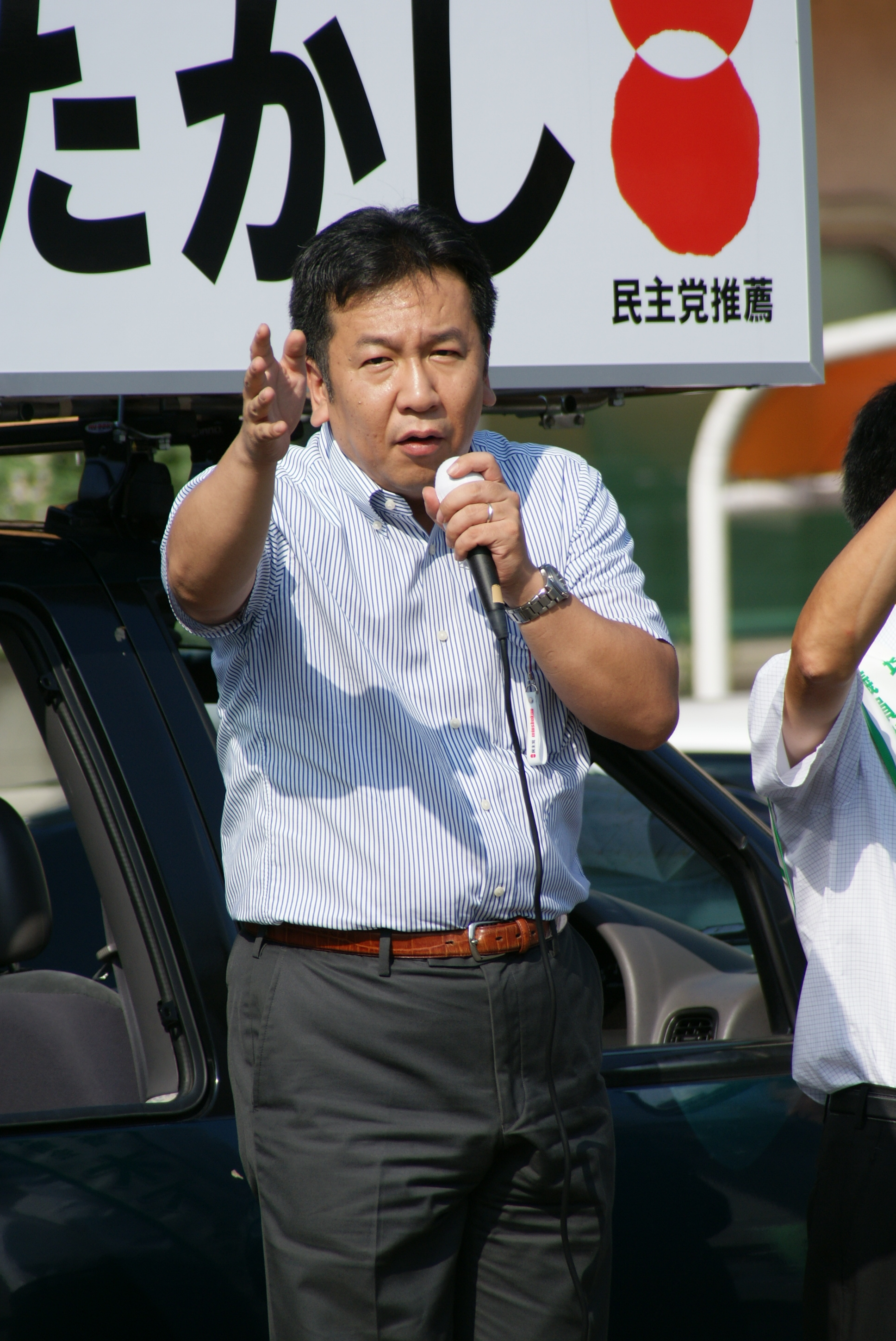 Democratic Party of Japan politician Yukio Edano speaking in front of Sakado Station, Saitama